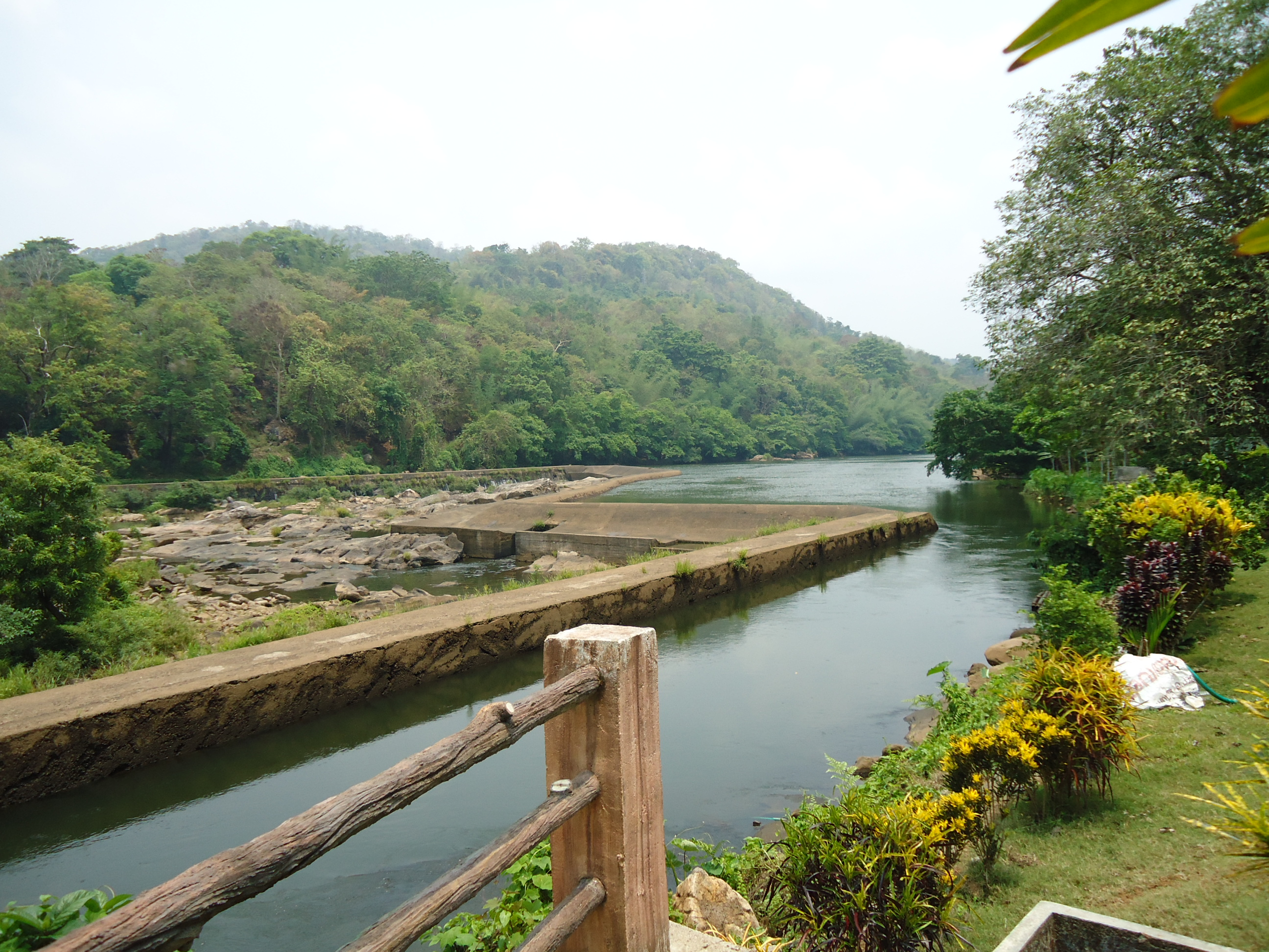 Ezhattumugham Dam